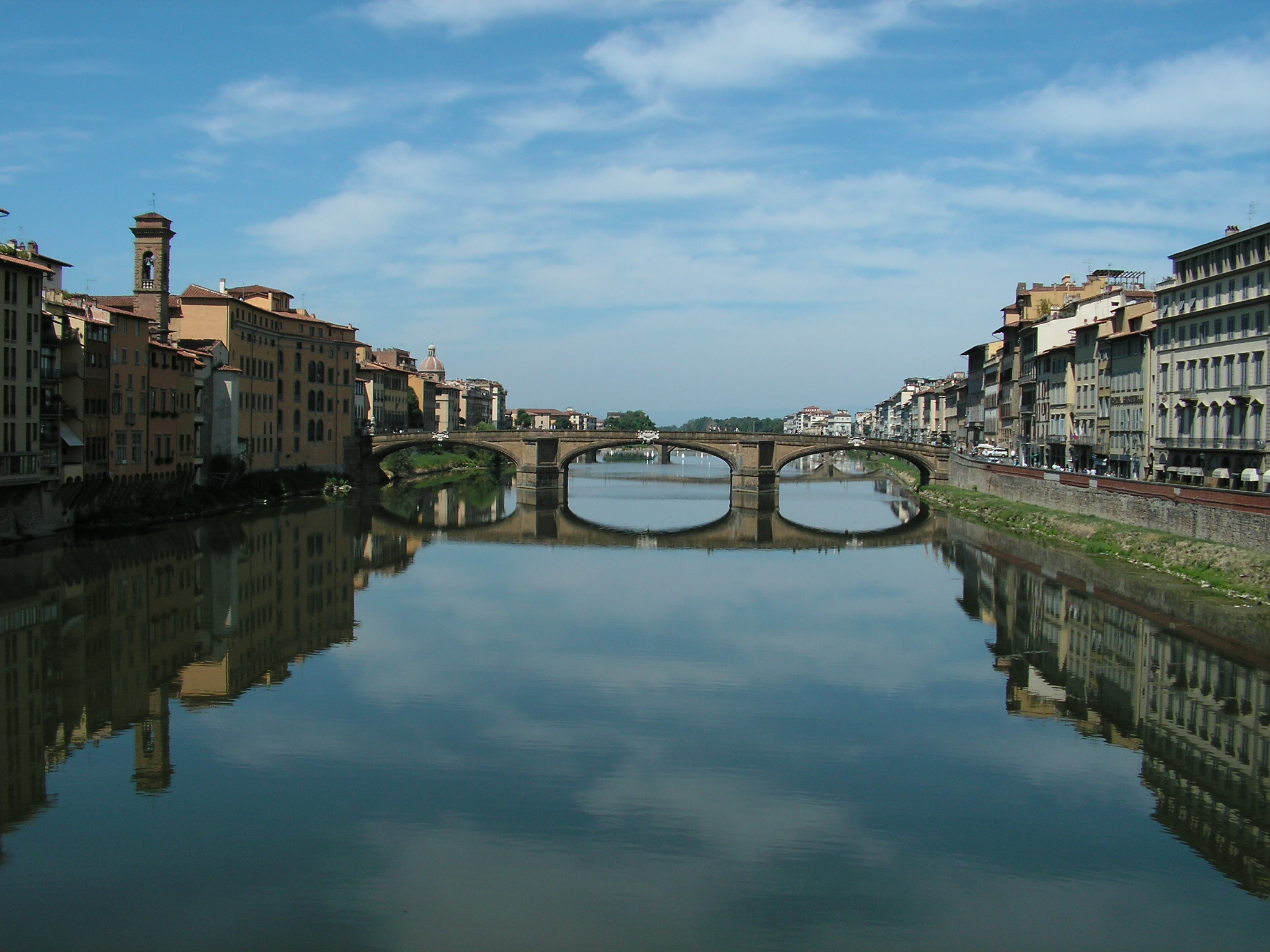 A midday view of Ponte Santa Trinita (Florence), from Ponte Vecchio on the Arno River in Florence, Italy